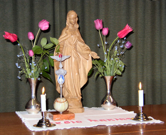 Praesidium Legio Mariae (Legion of Mary)